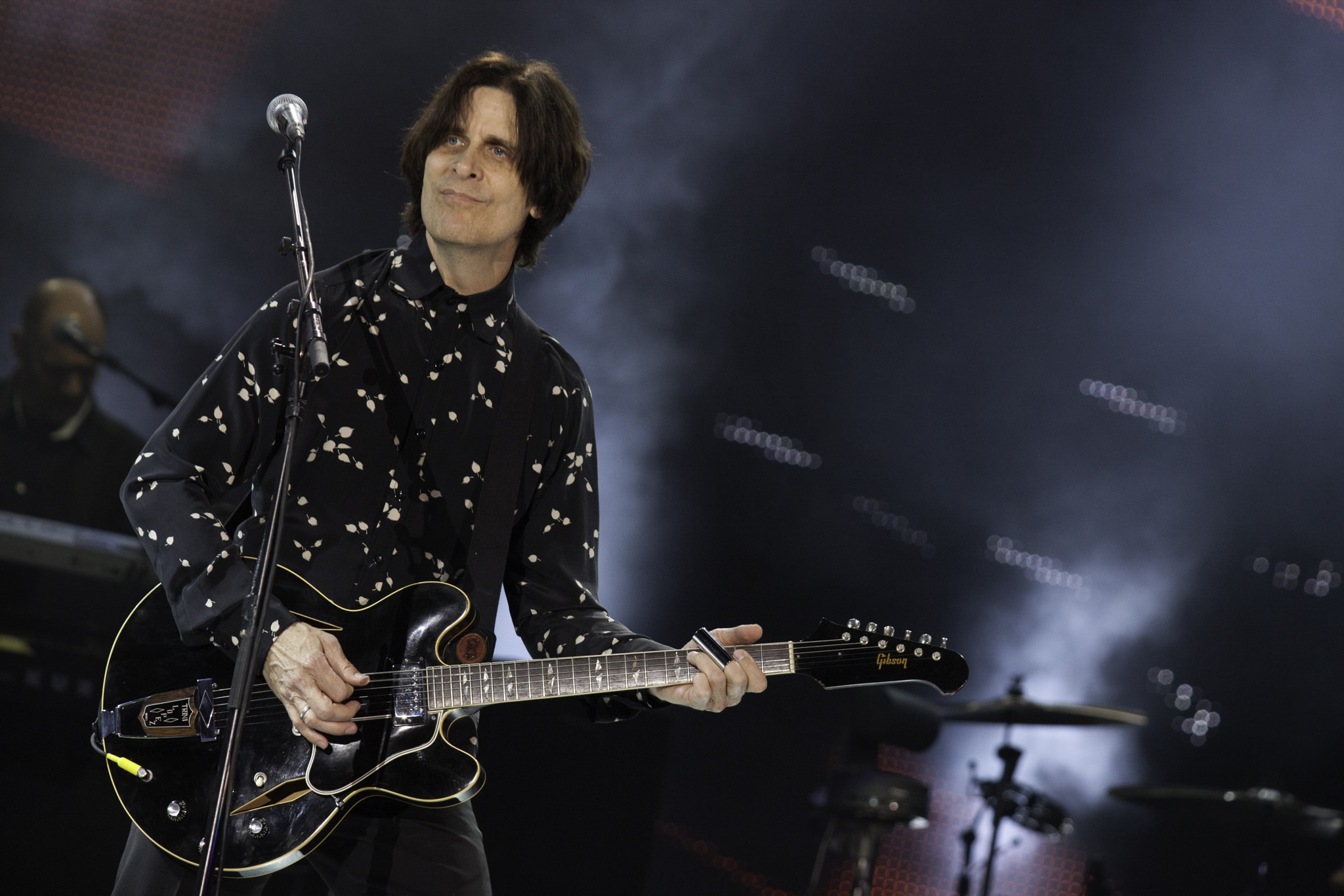 Paul McCartney, Saturday 19 April, Centenario Stadium, Montevideo, Uruguay. Out There tour, Out There! Tour including performances at the Movistar Arena in Santiago, Chile (Monday 21 and Tuesday 22), then in Peru, Ecuador and Costa Rica. Repertoire with several Beatles classics, some songs as Macca soloist, and songs from New his 2013 album produced by Mark Ronson, Paul Epworth and Giles Martin. This is the second visit of the former Beatle to Montevideo. His unforgettable debut at Centennial was in 2012, the On The Run tour, included songs from her jazzy album Kisses on the Bottom standards